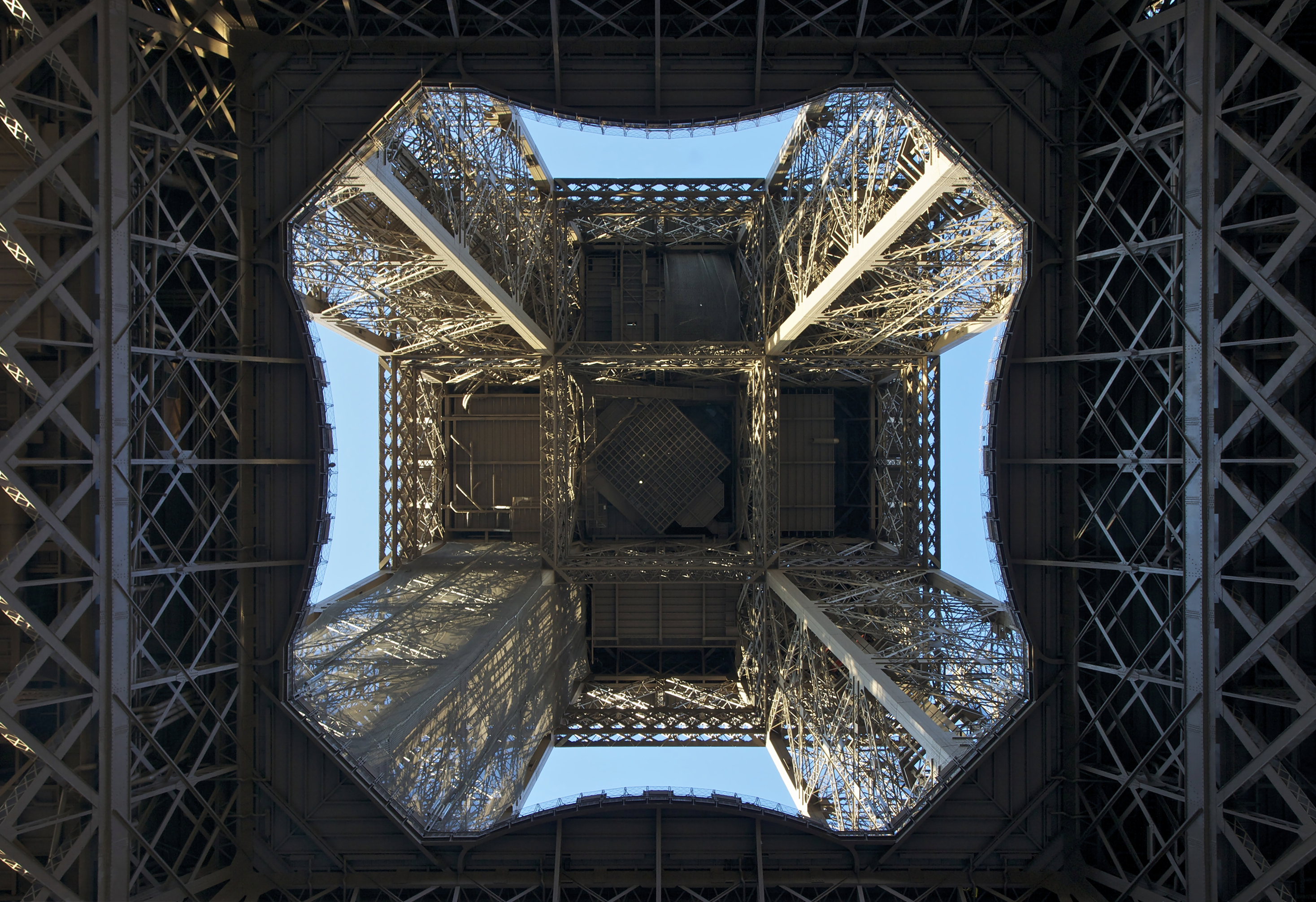 Looking up the center of the Eiffel Tower.